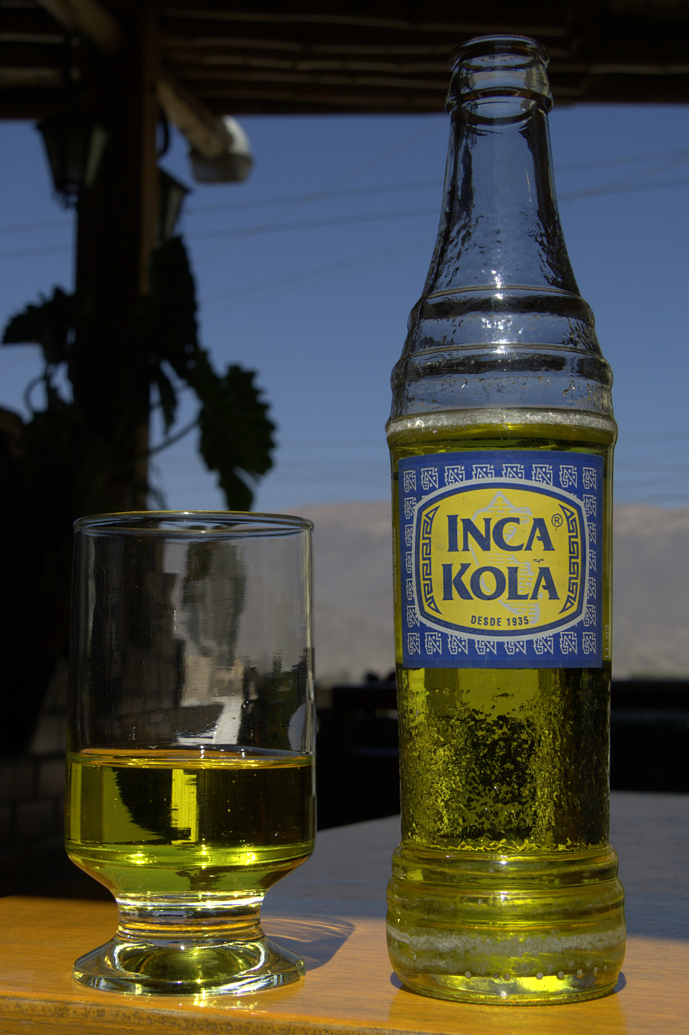 Glass and Bottle of Inca Kola, a soft-drink of Peru.